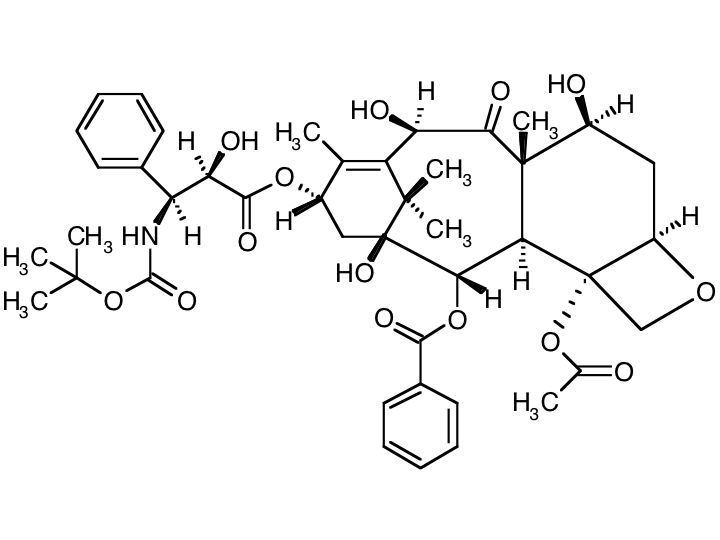 png version of Docetaxel.jpg (created by Oks)